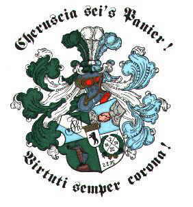 Emblem of Corps Cheruscia, a German fraternity